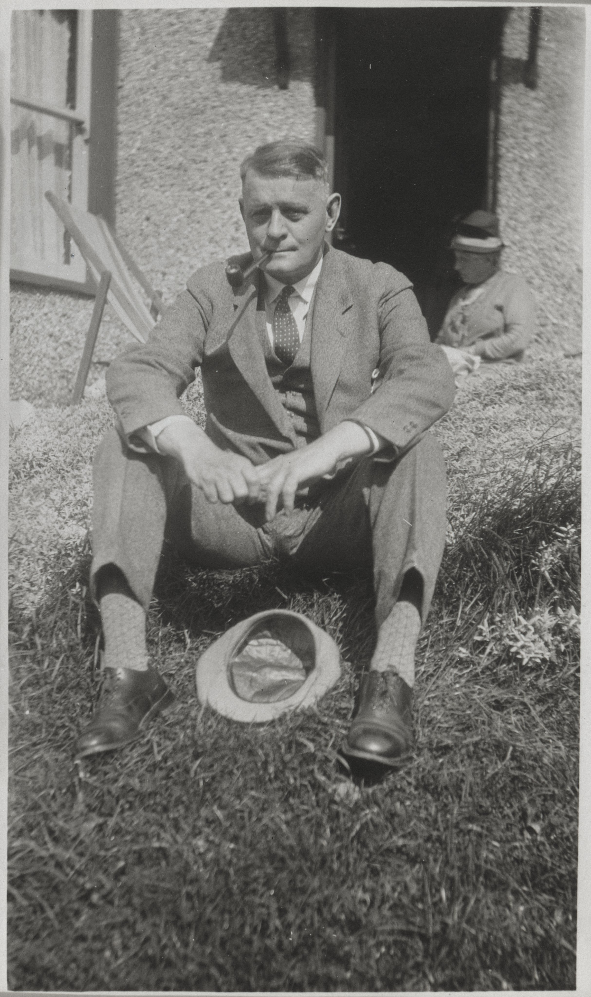 Alberta Premier Herbert Greenfield